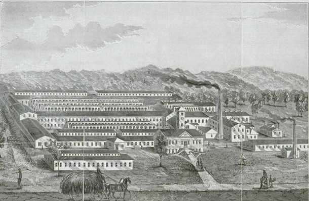 Mills along Hop Brook, Cheney Brothers, Manchester, ca. 1876 - Connecticut Historical Society